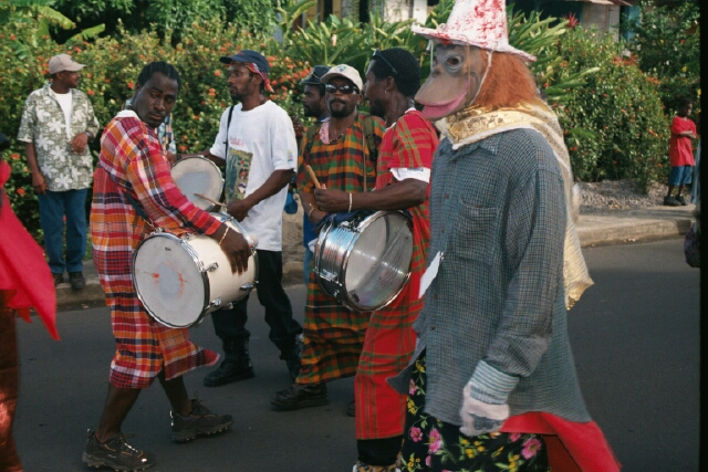 Tagged "Dominica", likely a Carnival band with performer in costume